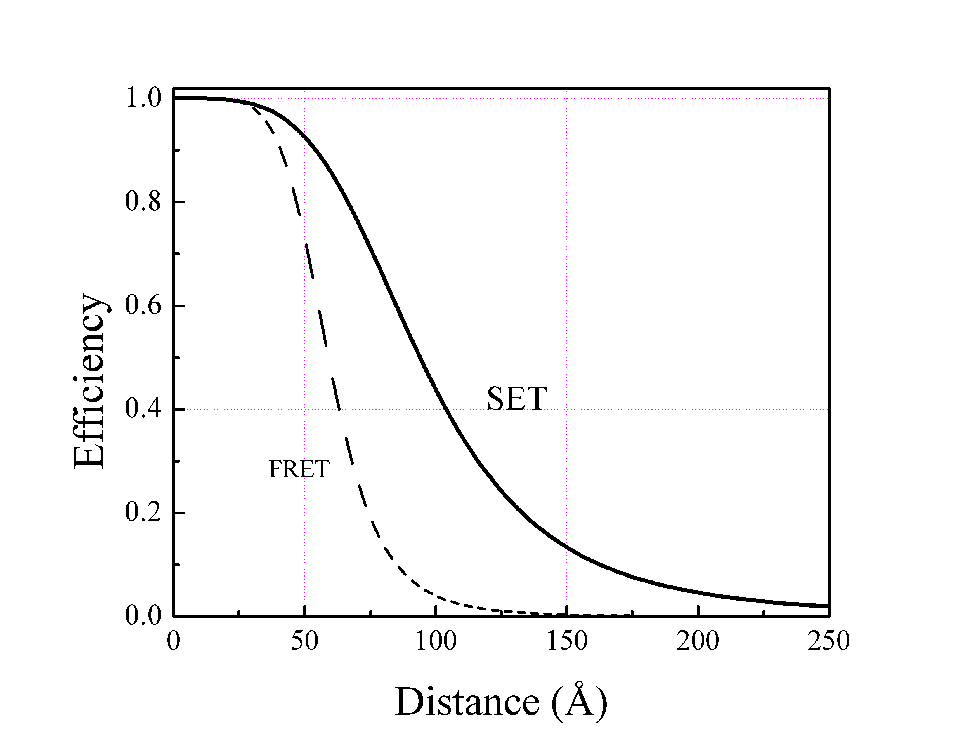 Energy transfer efficiency comparison between surface energy transfer (SET) and Forster energy transfer (FRET). The value of Förster radius and SET radius is taken from J. Am. Chem. Soc. 2005, 127, 3115–3119